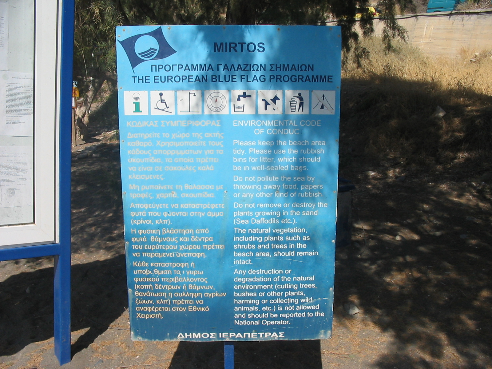 The Blue Flag program at the beach of Mirtos (South Crete)